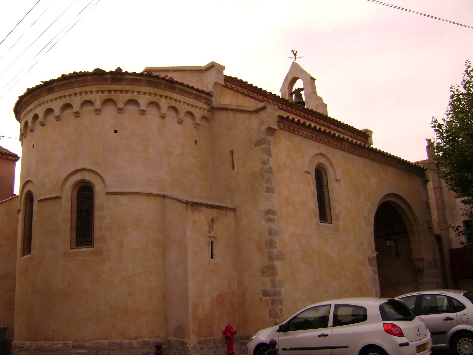 Saint-Barthélemy church, Raissac-d'Aude , Aude ,France